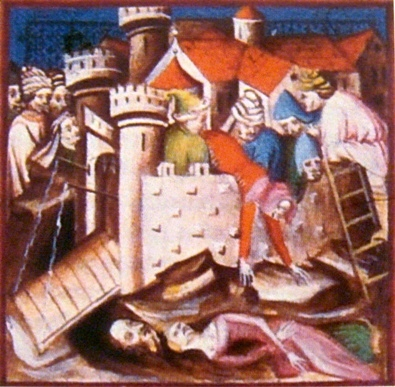 Siege Of Acre of 1291, supposedly "Bibliotheque Nationale de France" (which ms.?=